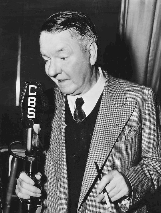 Photo of W. C. Fields